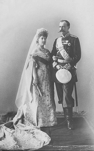 Grand Duke Georgi Mikhailovich of Russia with his wife, Grand Duchess Maria Georgievna (née Princess Maria of Greece and Denmark)